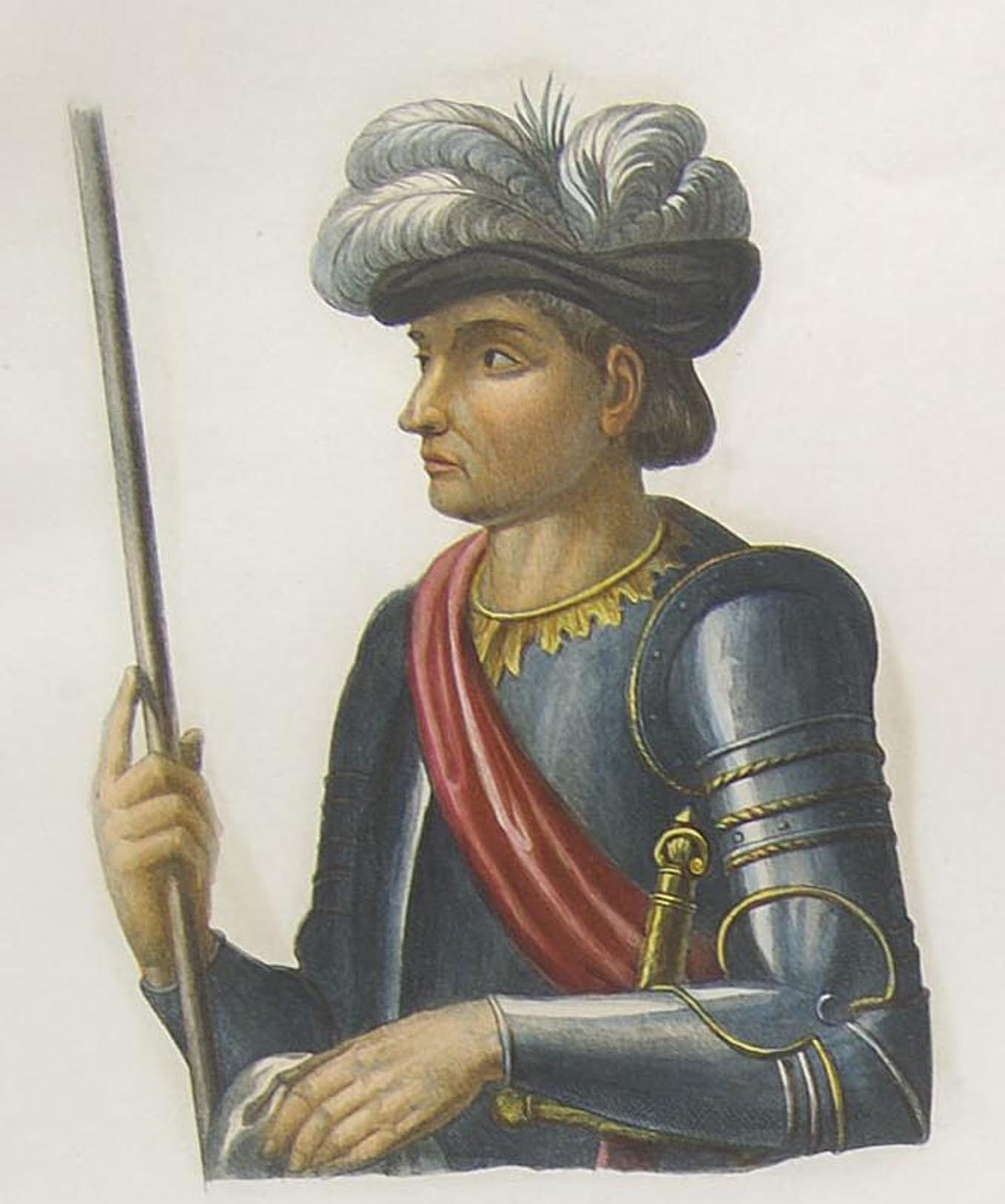 Galeotto Manfredi